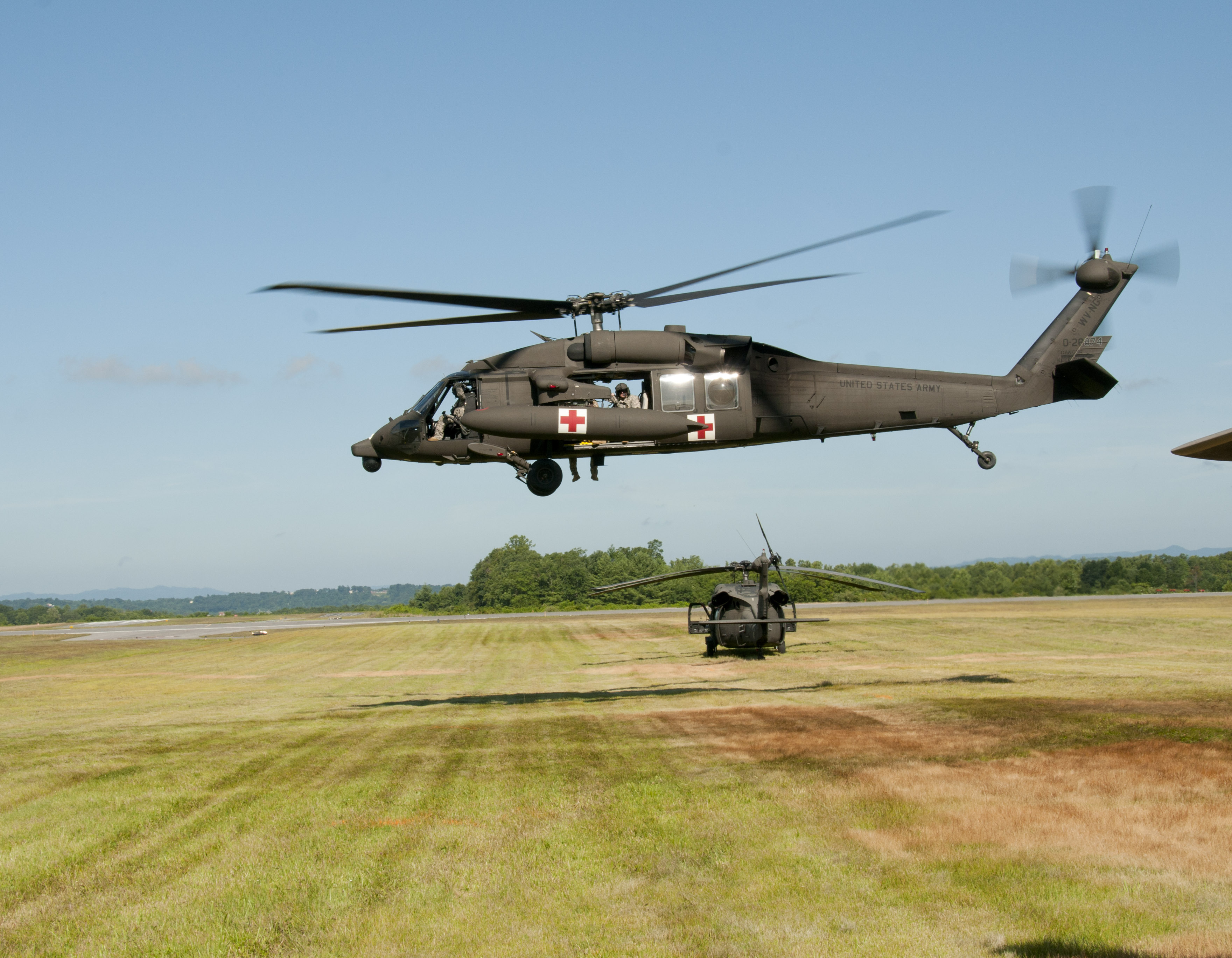 A U.S. Army UH-60 Black Hawk helicopter assigned to Charlie Company, 2nd Battalion, 104th Aviation Regiment, West Virginia Army National Guard lifts off during a mass casualty exercise as part of Sentry Storm, a training event at the Raleigh County Memorial Airport in Beckley, W.Va., July 15, 2013. Sentry Storm, led by the West Virginia Air National Guard's 130th Airlift Wing, was designed to highlight the unique military training areas and opportunities that are available in West Virginia. (DoD photo by Staff Sgt. De-Juan Haley, U.S. Air Force/Released)